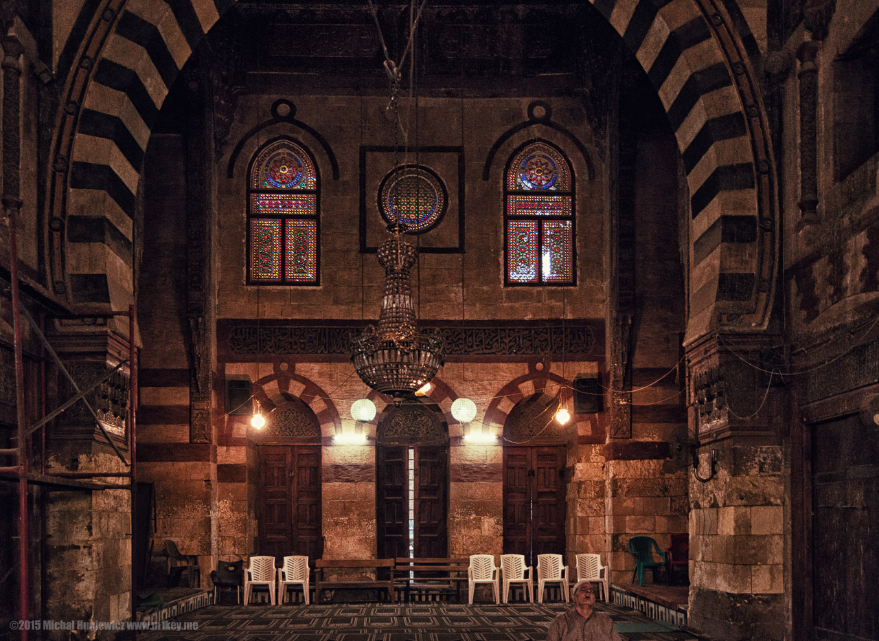 Sultan Al-Ashraf Qaytbay Mosque and Mausoleum, Egypt, Cairo.